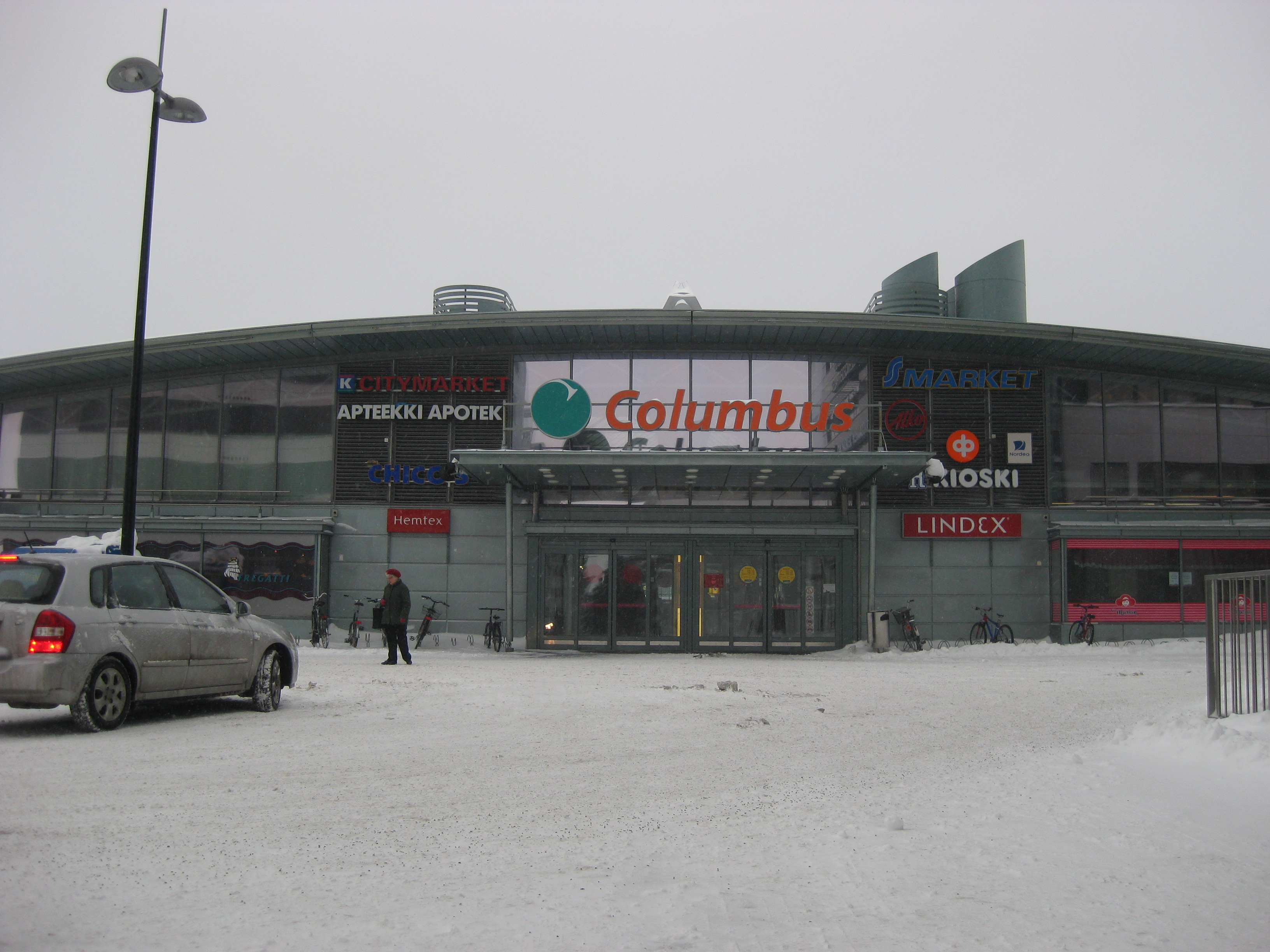 Southern enterance of shopping mall Columbus, Vuosaari, Helsinki